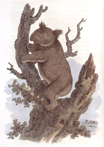 T.L. Busby. Koalo. Plate from Perry, George, fl. 1810-1811. Arcana, or, The Museum of natural history : containing the most recent discovered objects embellished with coloured plates ... combining a general survey of nature. This 1810s engraving was the first or one of the first illustrations of Koalas published in Europe.